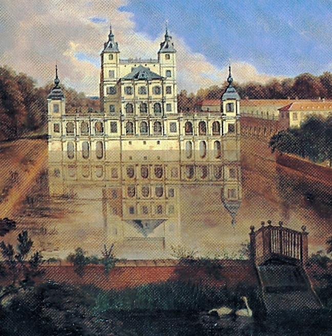 Düsseldorf, Altes Schloss Benrath (1660-1669, Johannes Lollio; genannt Sadeler), Abbildungen im Gemälde von Jan van Nikkelen in der Galerie zu Schleissheim aus dem Jahre 1715.jpg